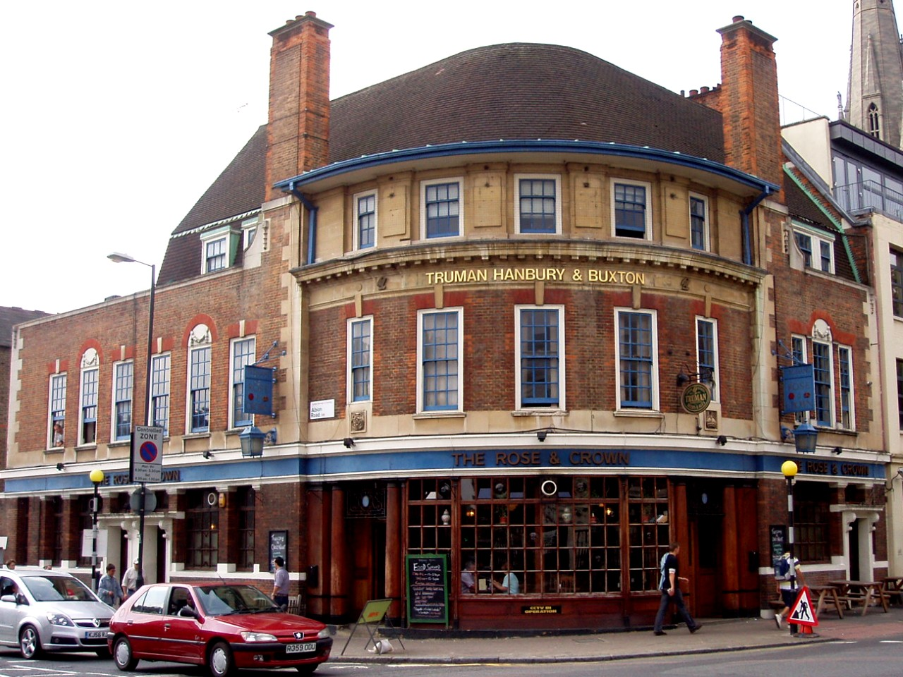 A nice inter-war pub near Clissold Park. The original pre-WWI pub was located on the opposite corner of Albion Road (at number 195). Address: 199 Stoke Newington Church Street. Owner: Truman Hanbury Buxton (former). Links: Randomness Guide to London Fancyapint Beer in the Evening Dead Pubs (history)